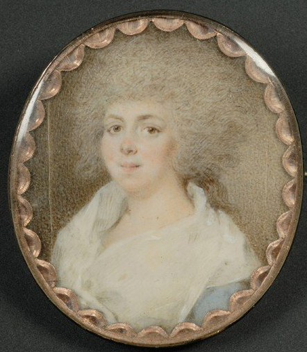 Portrait of Eleanor Calvert Custis Stuart (1758-1811)